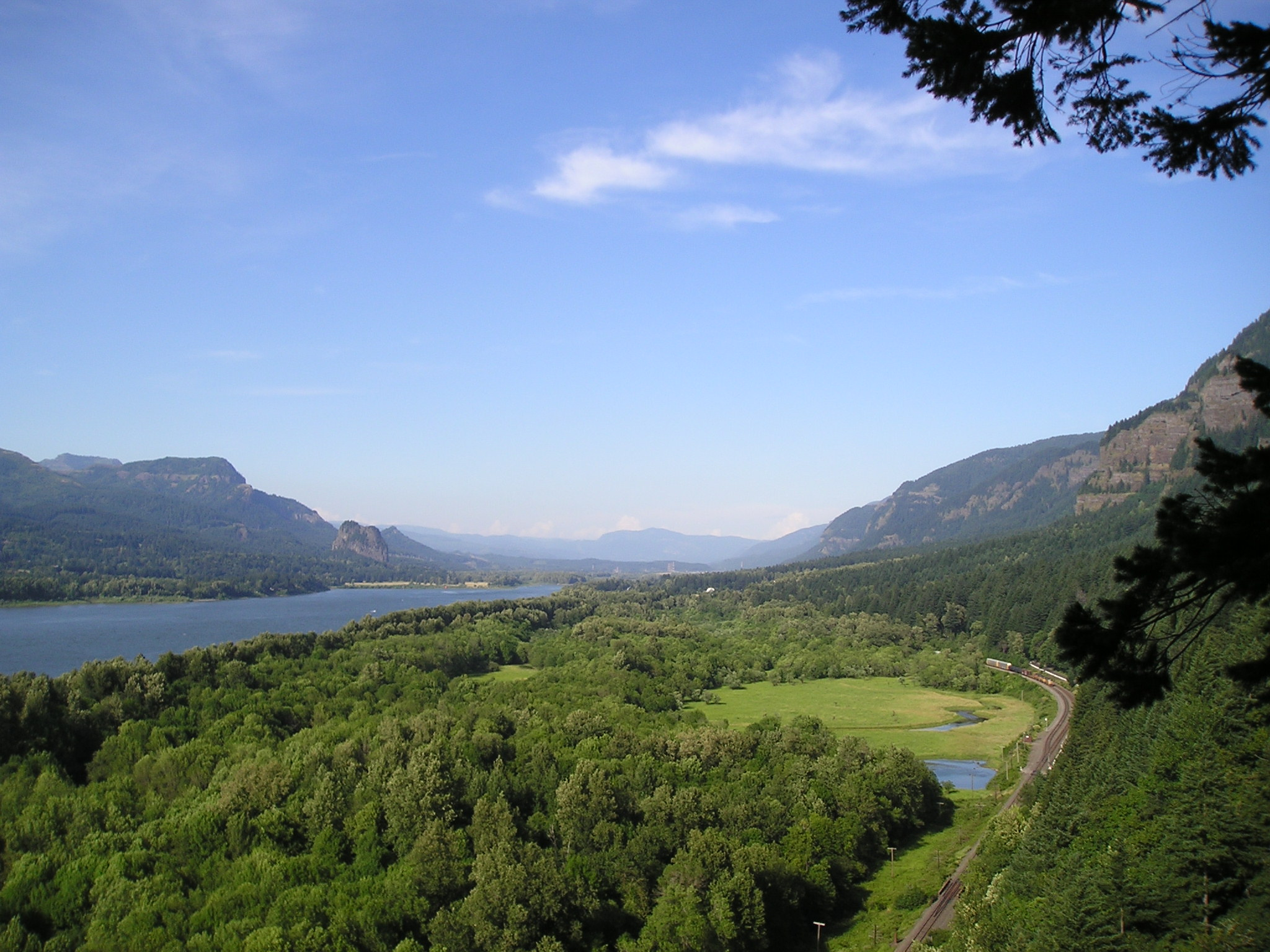 Overlook off of Trail 424 near Multnomah Falls, Oregon. The Columbia River to the right and across the river is Washington. Photo taken by: Pasquale Soldano